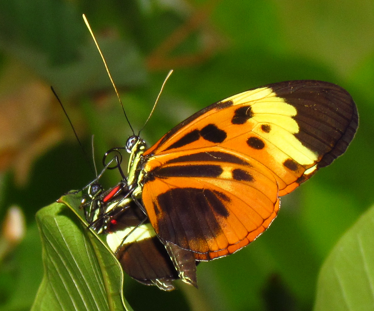 Numata Longwing (Heliconius numata), Carleton University, Ottawa, Canada